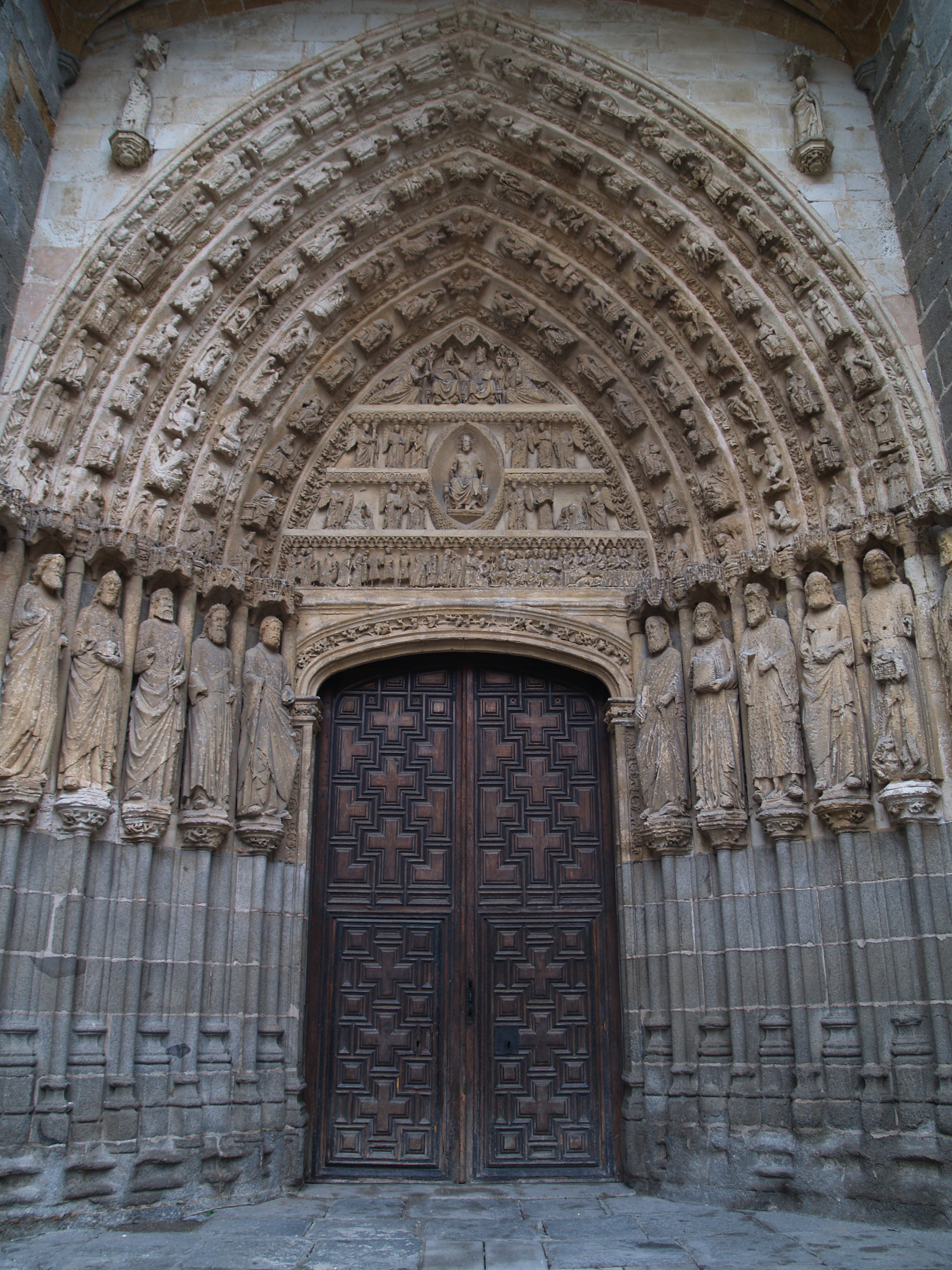 Northern gateway or the gateway of the Aposles; Cathedral of the Saviour, Ávila , Spain